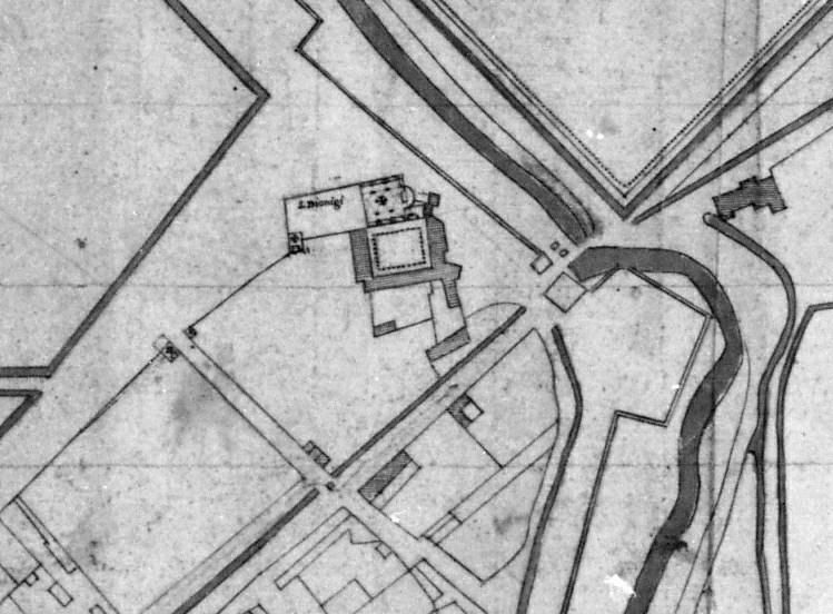 The basilica of San Dionigi of Milan at the end of the 18th century